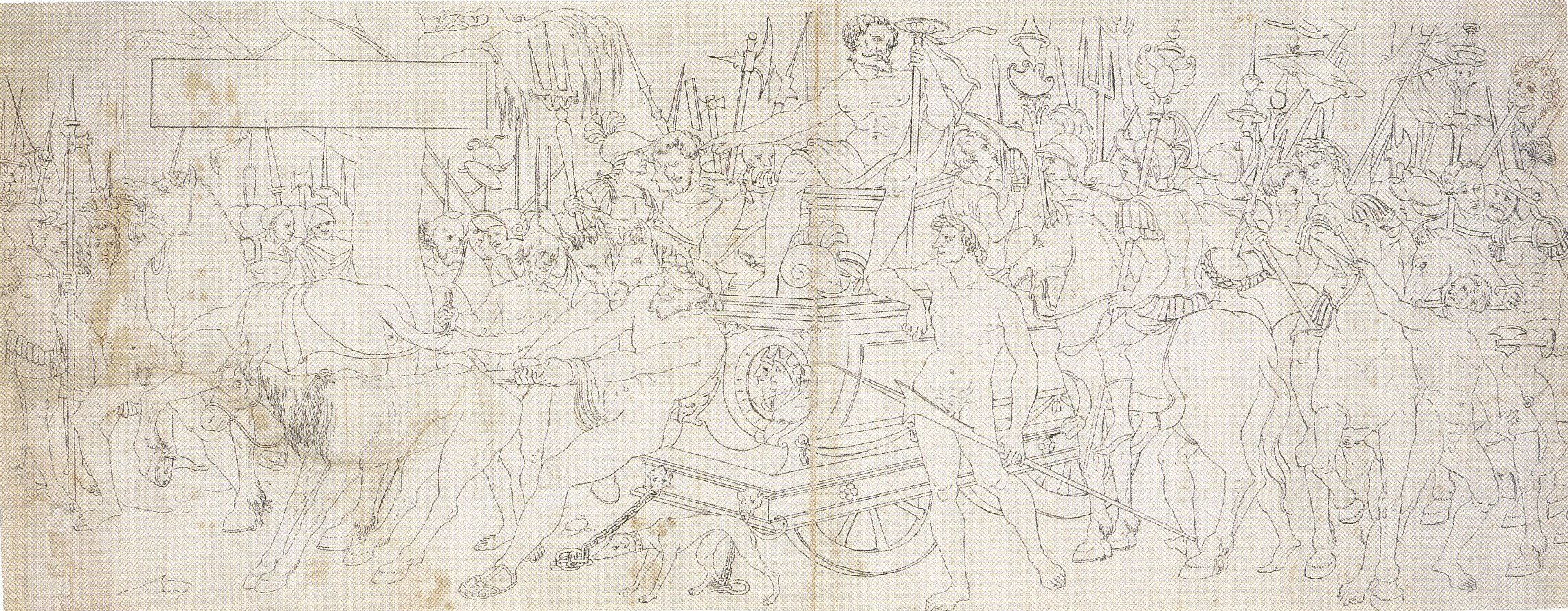 Sertorius and the Example of the Horses. 28.1 × 70.1 cm, Pen and ink, Kunstmuseum Basel. The drawing style and format of this and its accompanying sheet indicate that they relate to Holbein's murals for the Council Chamber of Basel Town Hall. He began the work during the 1520s, painting classical subjects such as this one. After his return from a two-year visit to England (1526–28), he was commissioned to resume the task, but this time to provide murals based on Old Testament subjects, in keeping with the new Reformation doctrines of the authorities. The murals were one of several large-scale projects undertaken by Holbein that are now known only from a few fragments and preparatory sketches. They were intended to remind the councillors of the need for wise and godly government. This design portrays Quintus Sertorius (123 BC–72 BC), a wise statesman and shrewd general who led the Lusitanians to victory against the Roman empire and was famous for his skill in winning battles against larger forces. He illustrated the principle to his followers by demonstrating that a horse's tail could be picked out hair by hair but not pulled out all at once. The hart under Sertorius's outstretched arm alludes to the white hart that supposedly appeared at the Battle of Sucro, in which Sertorius and the Lusitanians defeated Pompey. References Christian Müller; Stephan Kemperdick; Maryan Ainsworth; et al, Hans Holbein the Younger: The Basel Years, 1515–1532, Munich: Prestel, 2006, ISBN 9783791335803, pp. 263–64, 412. Derek Wilson, Hans Holbein: Portrait of an Unknown Man, London: Pimlico, 2006, ISBN 9781844139187, p. 162.